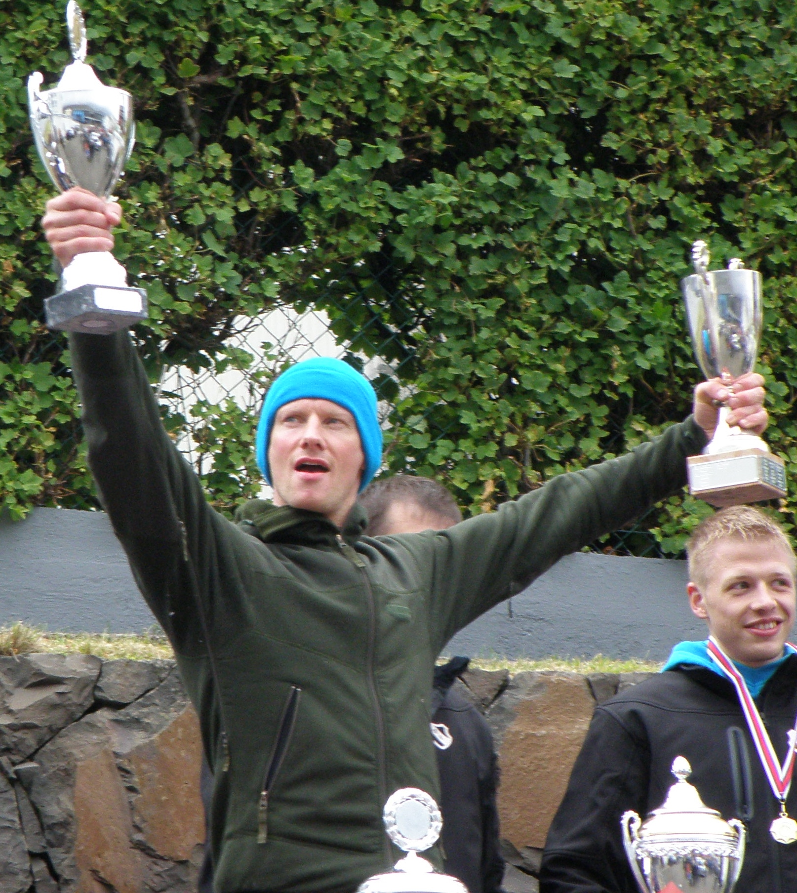 Bjarni Hammer is a Faorese rower, politician and police officer.